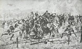 Battle of Heilsberg painting by Juliusz Kossak